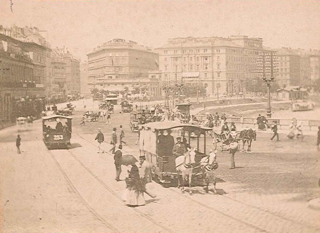 Vienna, Franz-Josefs-Kai, ca. 1870/80